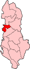 Locator map for Durrës County , within Ablbania.